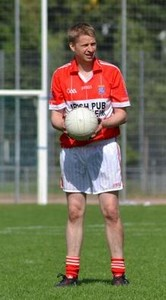 Jinny Picture